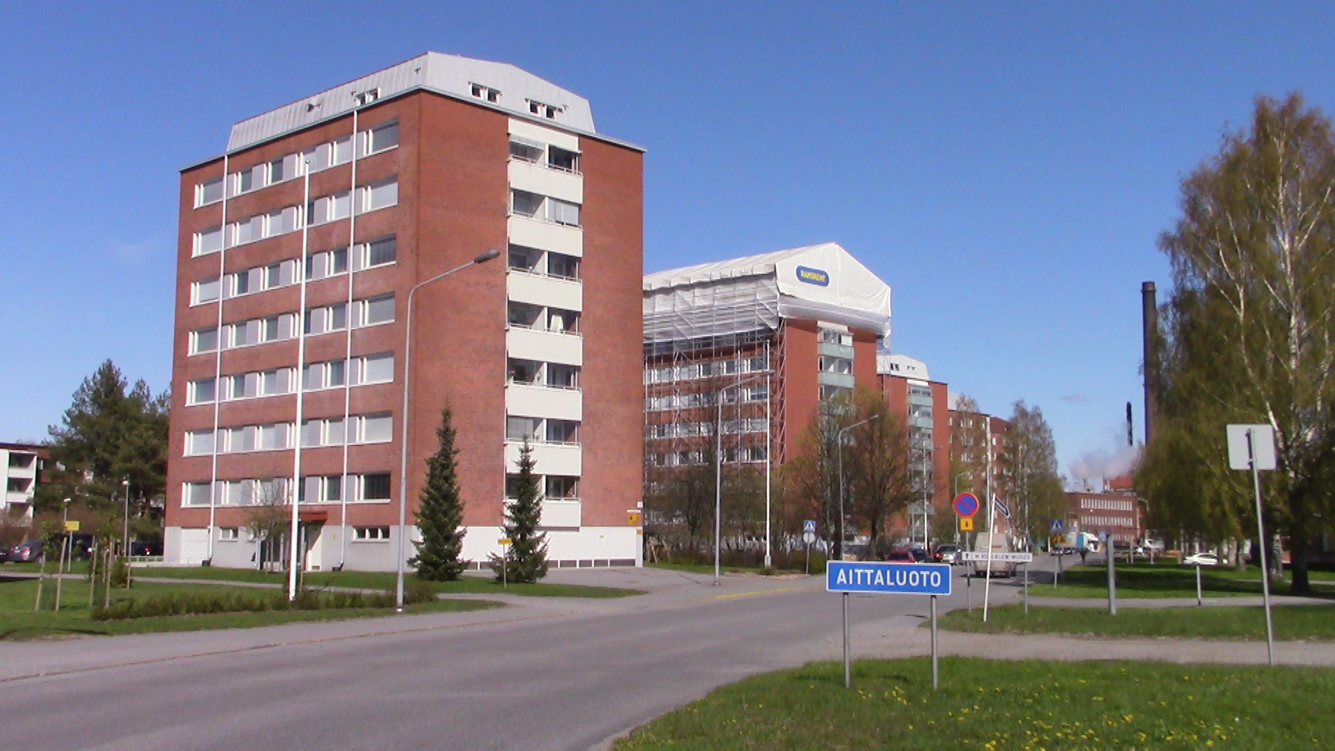 Kuninkaanlahdenkatu street and some apartment buildings next to it at Aittaluoto suburb in Pori, Finland.